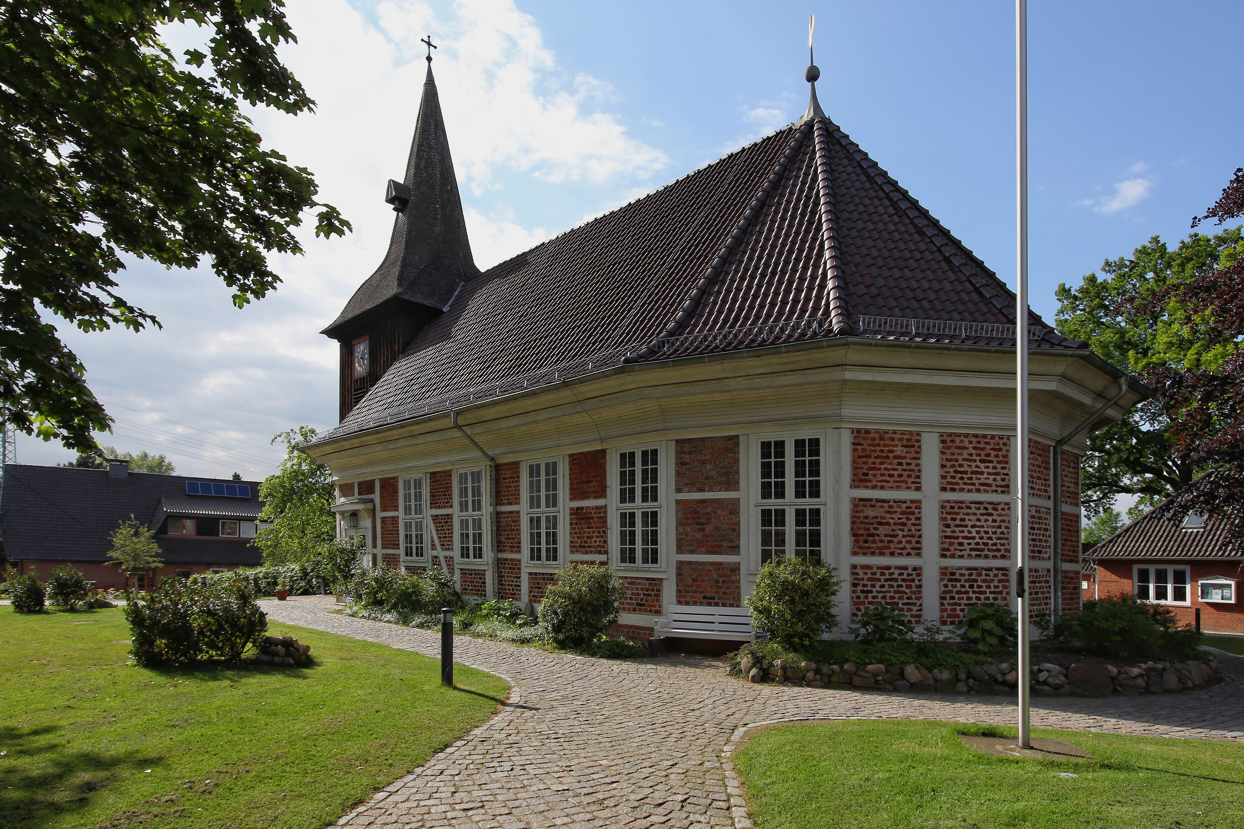 Church St. Salvatoris, Geesthacht, choir